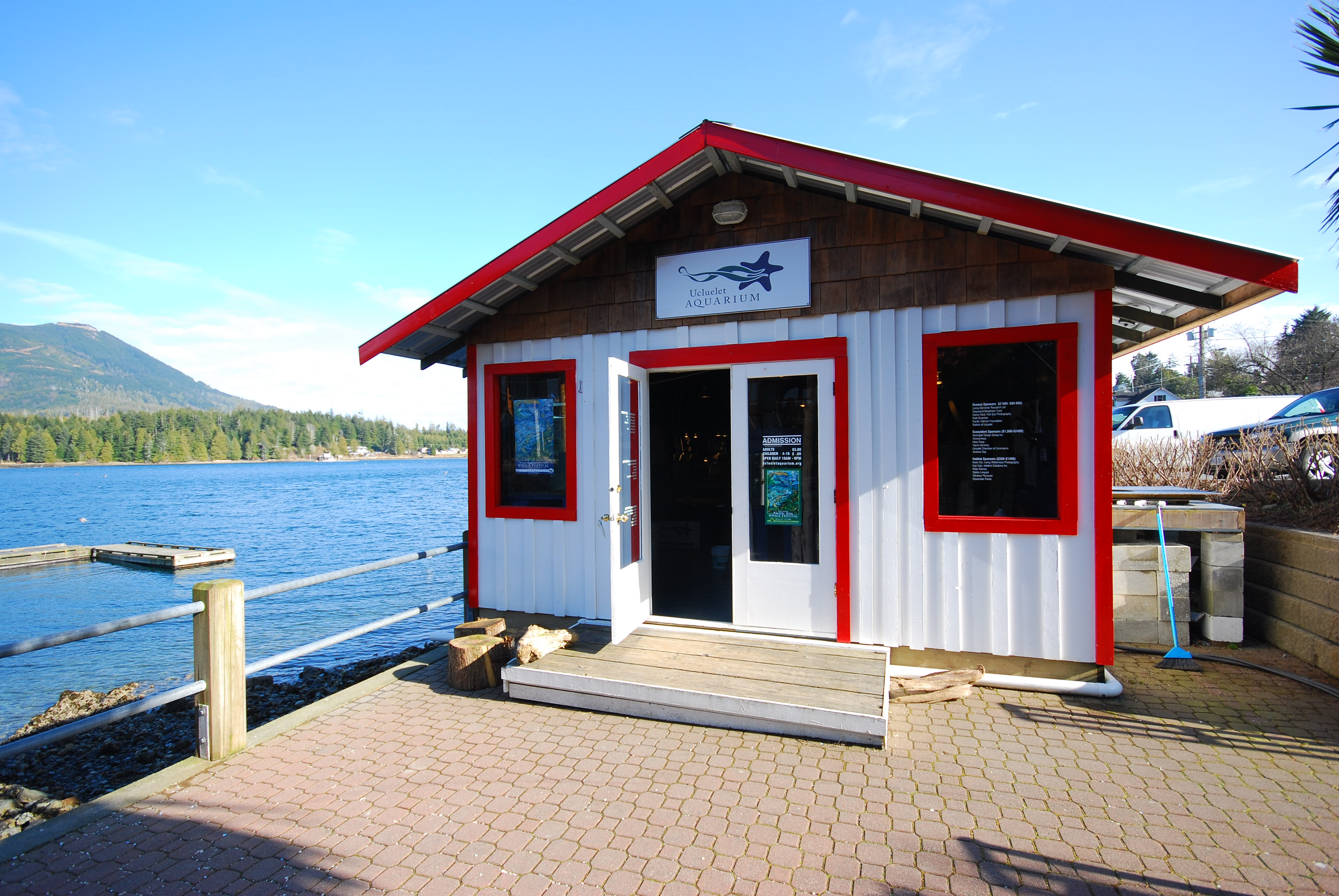 Ucluelet Mini-Aquarium, looking southeast along Ucluelet Harbor